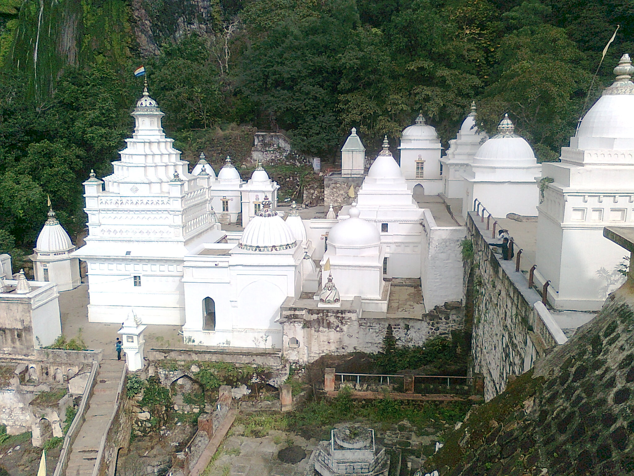 Muktagiri located in Betul Dist of M.P.